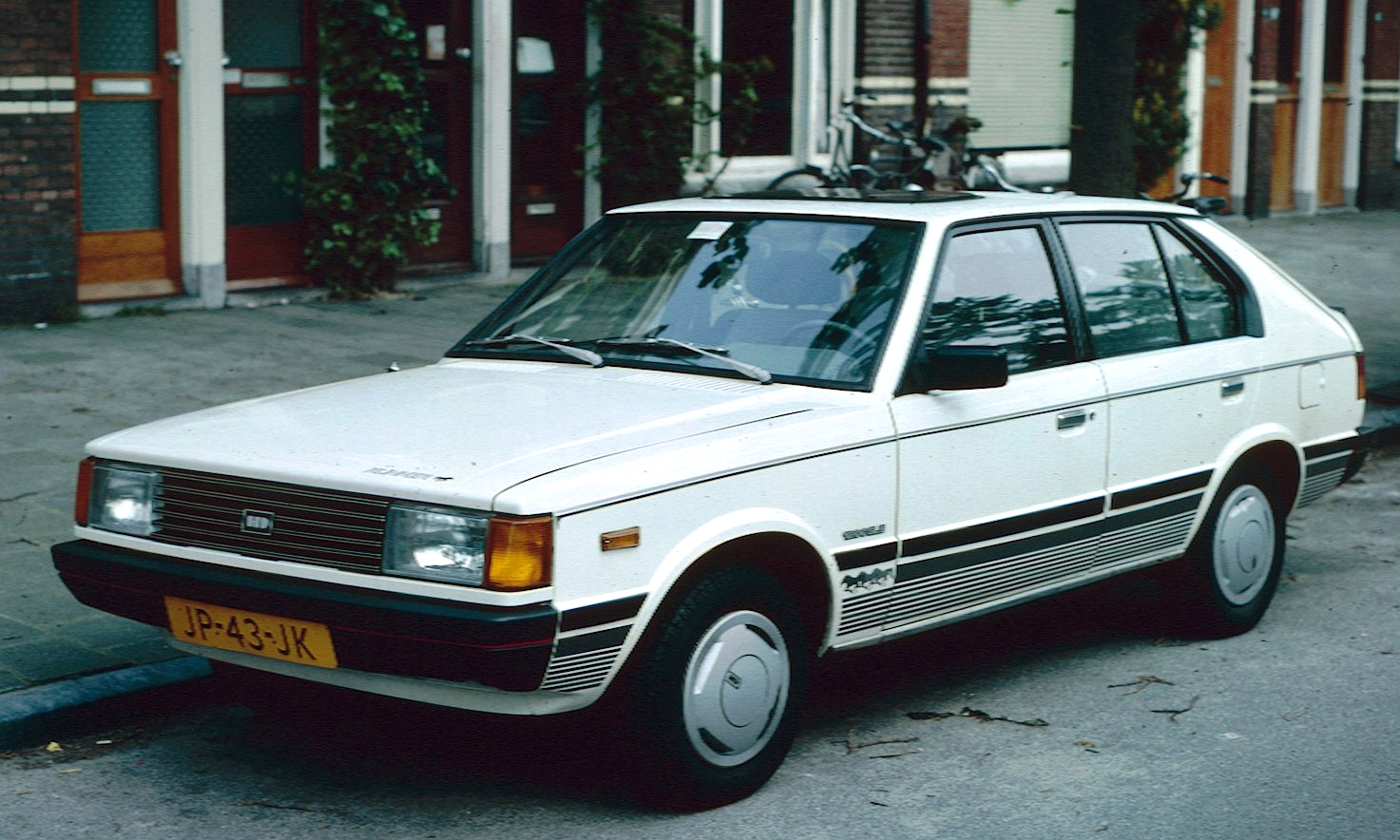 Hyundai Pony Second iteration in Utrecht